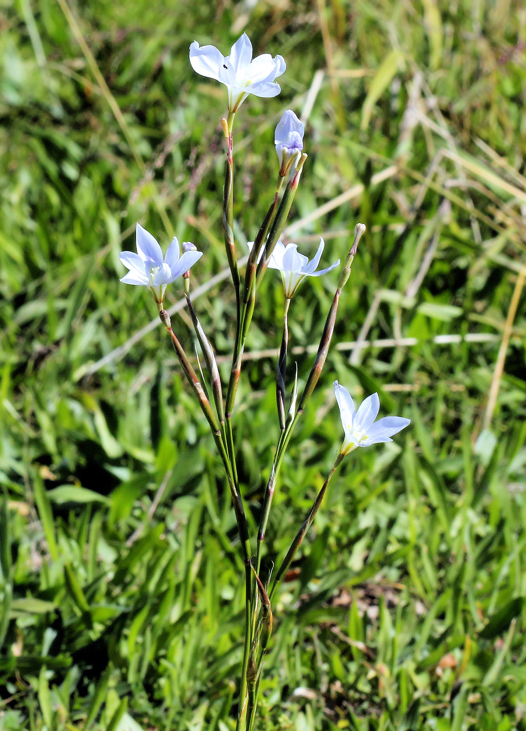 Unidentified species of Moraea photographed in Mossel Bay, South Africa